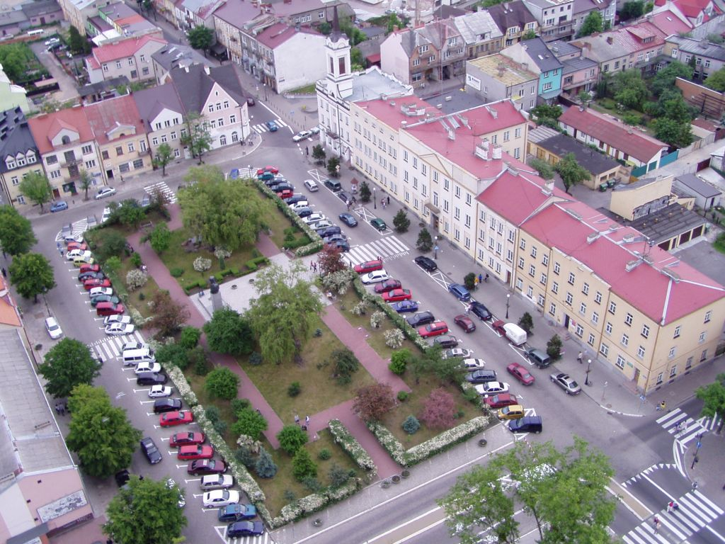 City of Ostroleka (Poland), Gen. J. Bem's Square in the year 2003.